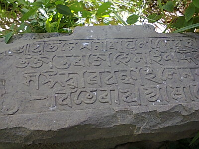 Two stones inscription depict the architectural memory of Dimasa King Meghanarayan Hasnusa at Kirtipur presently known as Maibang in Dima Hasao district like a Dimapur capital of Hirimba Kingdom.